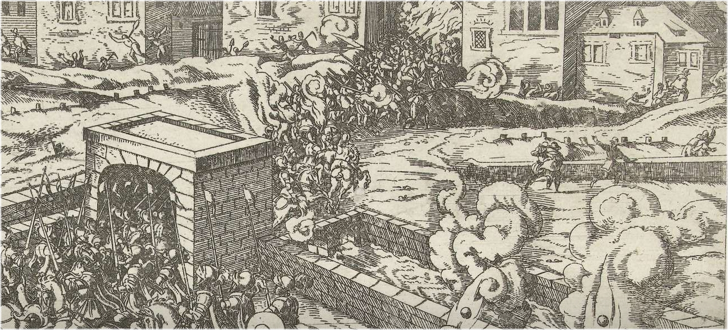 Spanish Fury at Antwerp